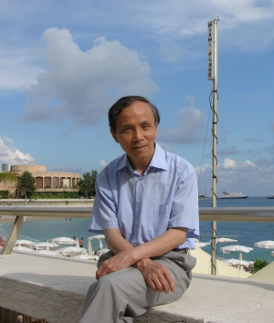 Lam Quang My